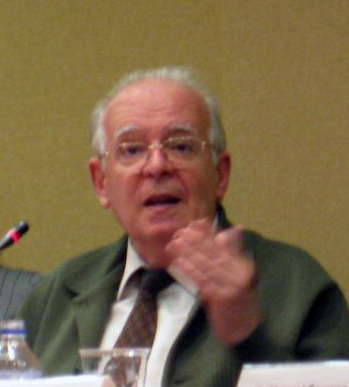 Luis Ruiz de Gopegui during a talk about the Apollo Space Program